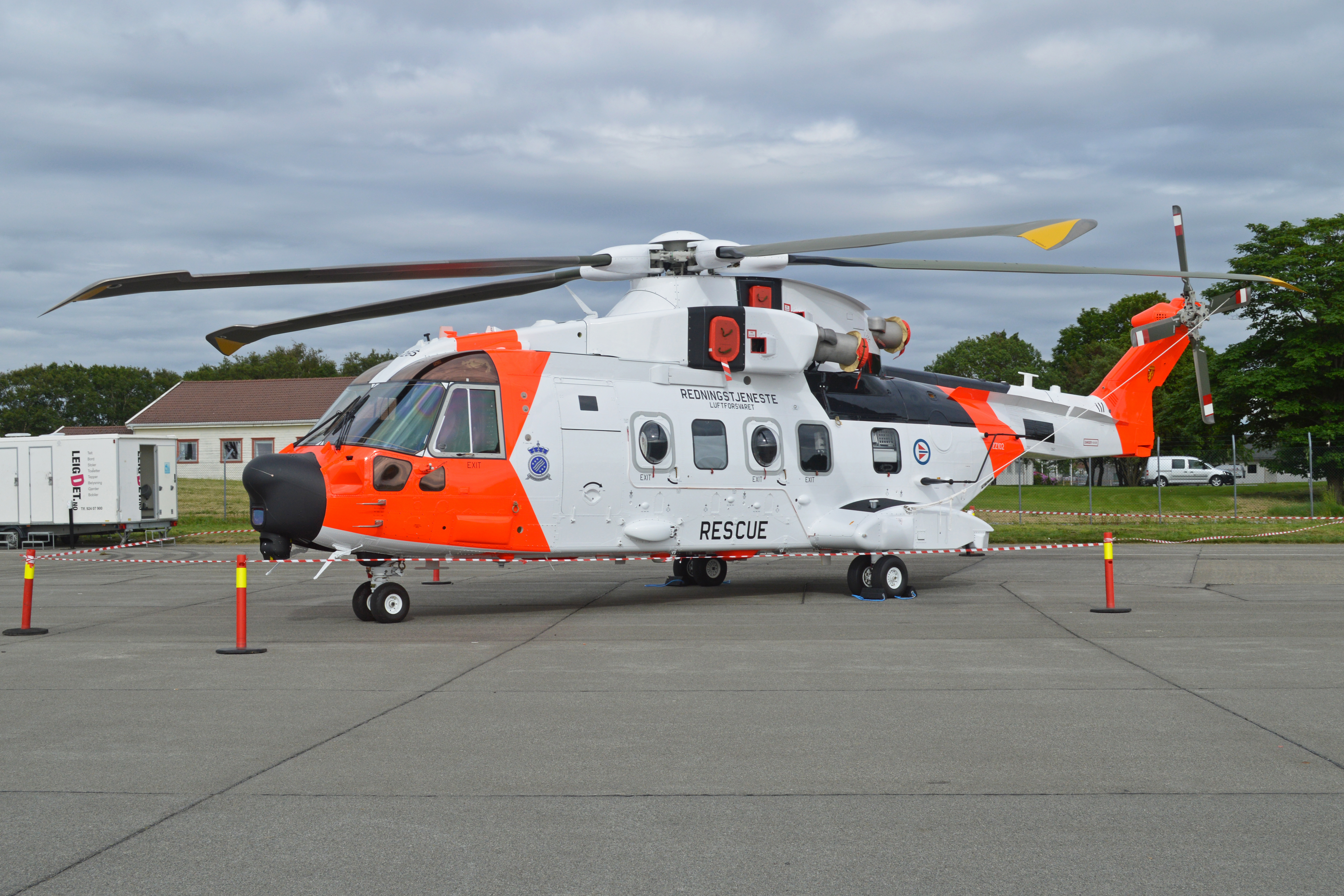 c/n 50265. Built 2017. Norway has ordered sixteen AW101 helicopters to replace its current Sea King fleet. While in full Norwegian colours, this example had not yet been handed over and was being operated by AgustaWestland using the British military serial ZZ102. When handed over it will become ‘0265’ in Norwegian service. On static display at the 2017 Sola Airshow, Stavanger Airport, Sola, Norway. 10th June 2017